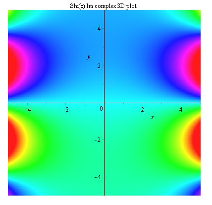 Shi(x) Im complex density plot